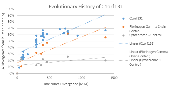 Graph of divergence of this gene as compared to fibrinogen and cytochrome C.